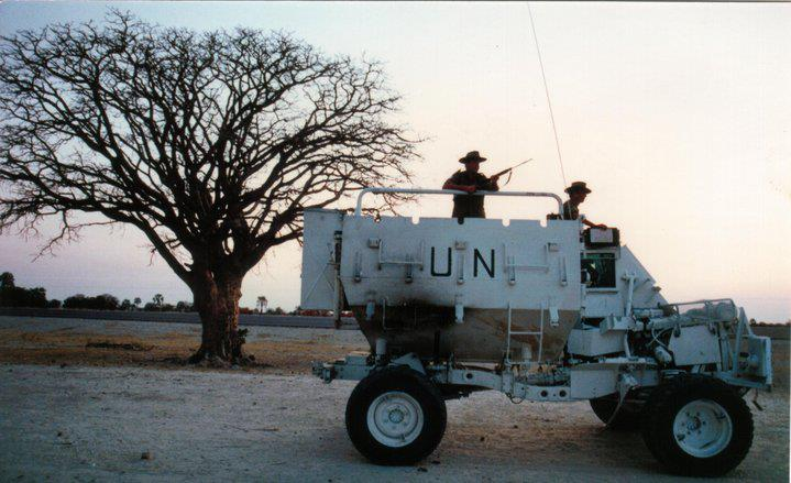 Photograph of field engineers from the 14th Field Troop on patrol in Ovamboland near Ongwediva in a Casspir mine-protected vehicle.